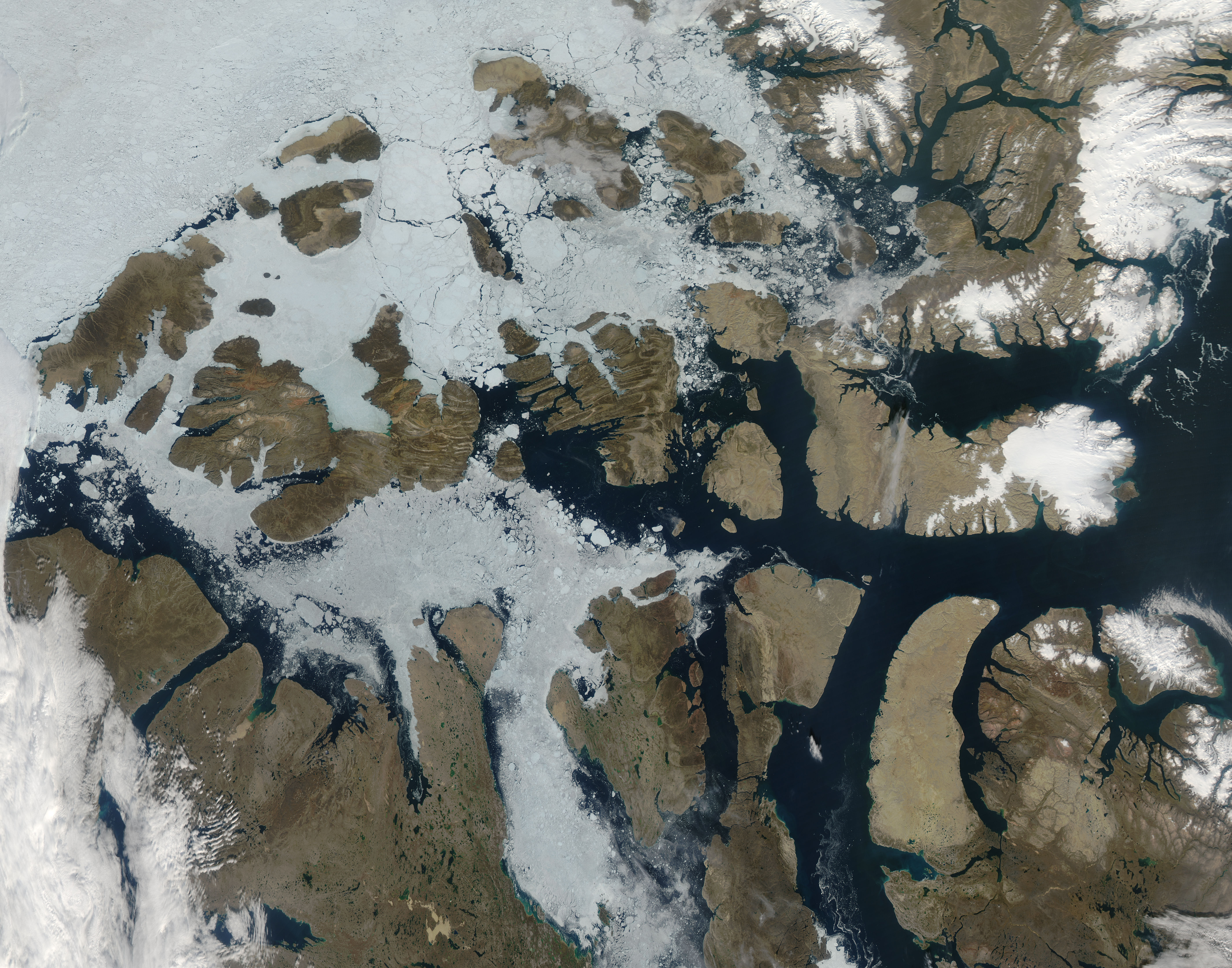 The fact that it is late summer is apparent in this image of the Queen Elizabeth Islands, located in northern Canada. This image was captured by the MODIS on the Aqua satellite on August 27, 2009. In past images of this region, captured in earlier months (i.e., May and June of 2001), the ice around the islands is shown just starting to break up. In this image from August, much of the ice is broken up and blue water is visible, as well as brown terrain. The Queen Elizabeth islands are the most northern group of islands in the Canadian Arctic Archipelago. This grouping used to be called the Parry Islands. After the name change in 1953, the Parry Islands only refers to the most southern part of the archipelago. The largest island is Ellesmere, located in the north, separated from Greenland by the Nares Strait.